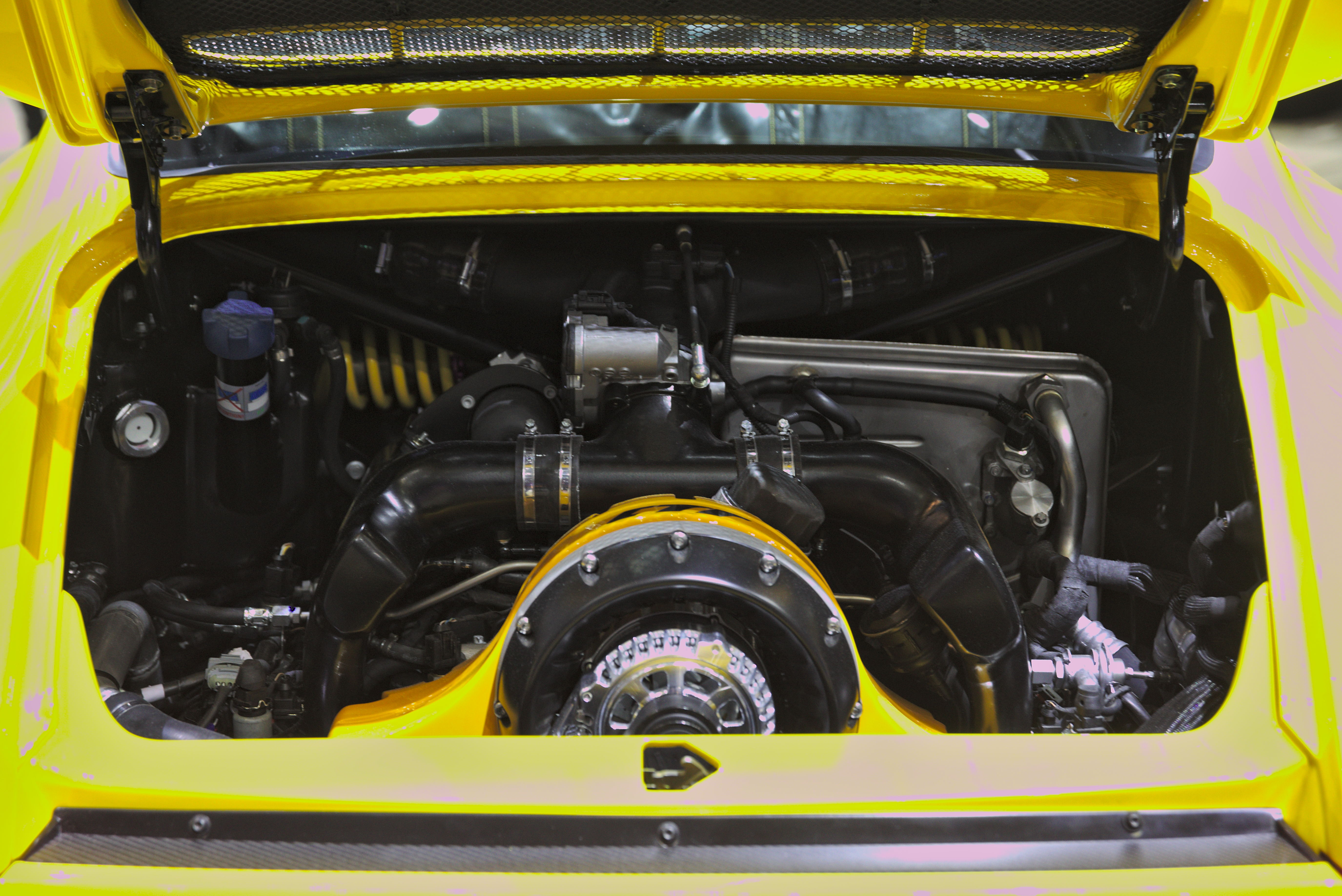 Ruf CTR at Geneva Motor Show 2019